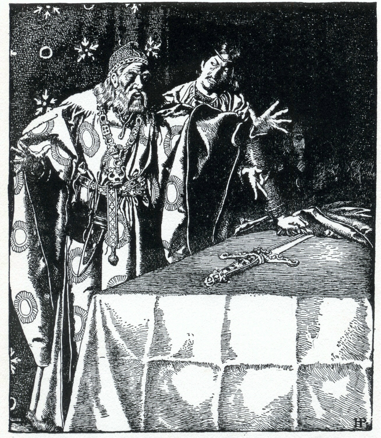 Howard Pyle illustration from the 1903 edition of The Story of King Arthur and His Knights scanned and archived at where it was marked as Public Domain.